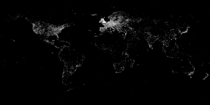 Geolocated images in Wikimedia Commons. (There are 5,257,202 files in category "Media with locations" at 2015-02-07.)